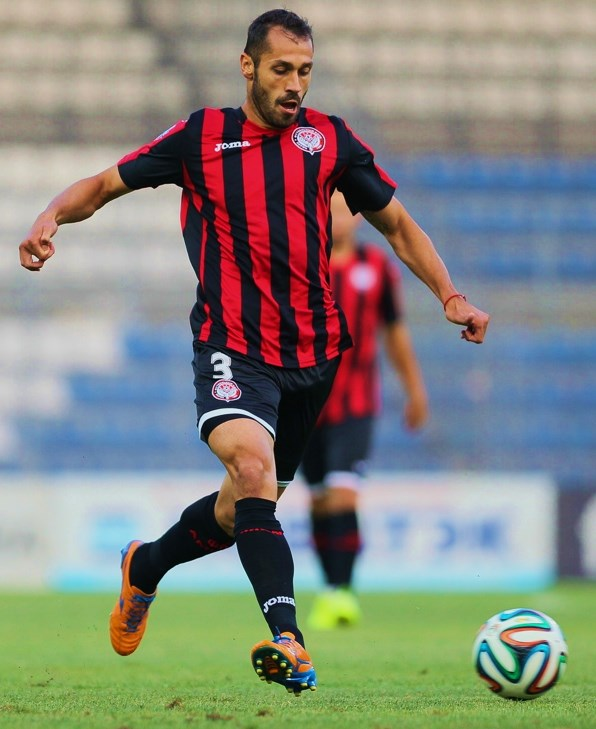 Petar Zanev 2014